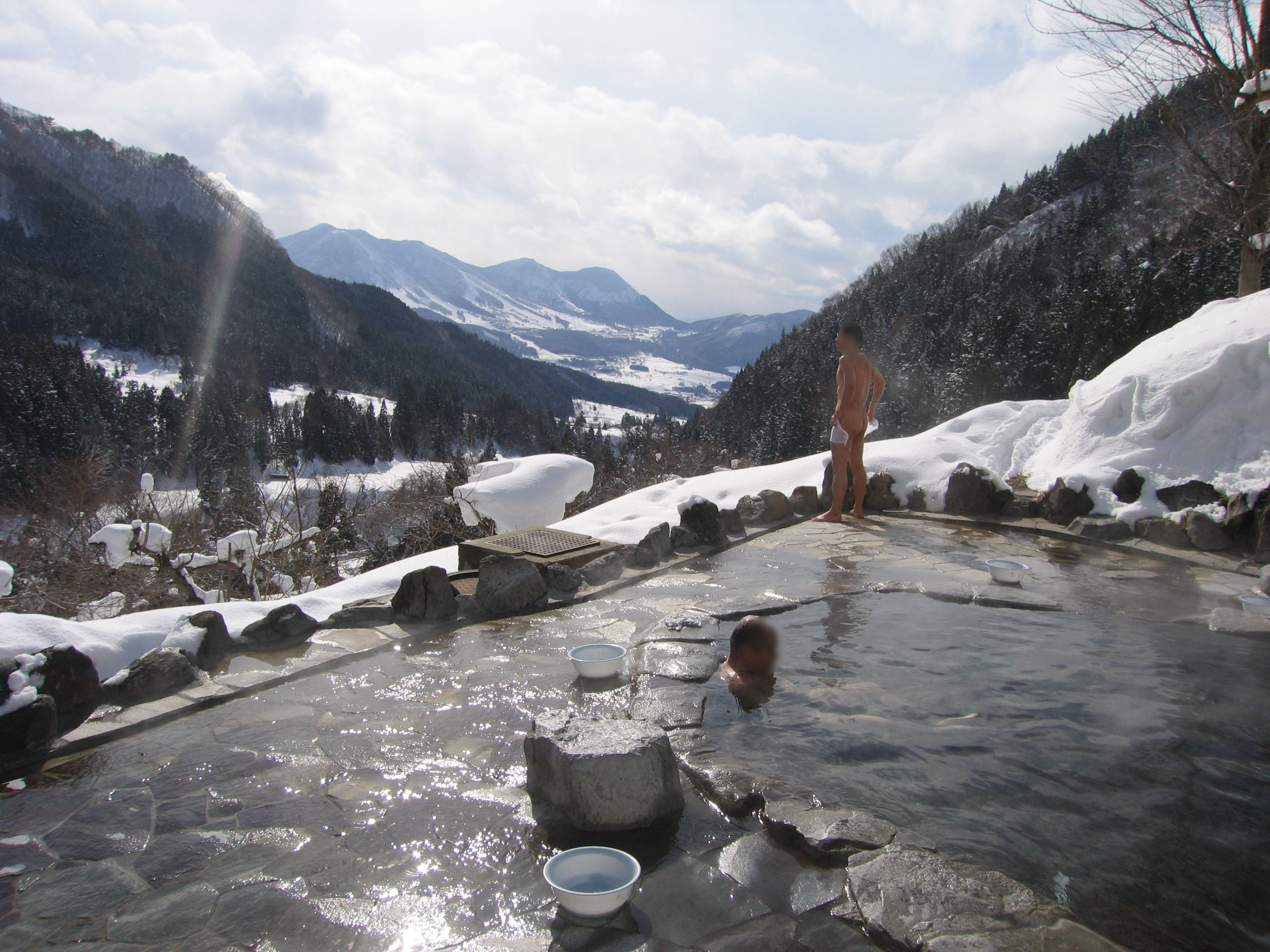 Photo by Yosemite 11:44, 25 November 2005 (UTC). Maguse Onsen is Category:Onsen in Japan.